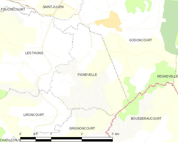 Map of French municipality Fignévelle